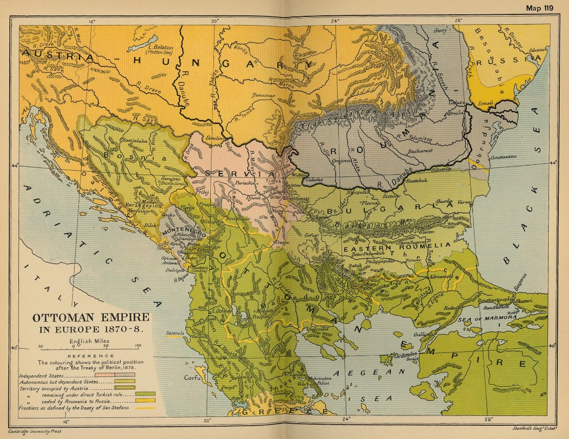 Balkans after Treaty of San Stefano